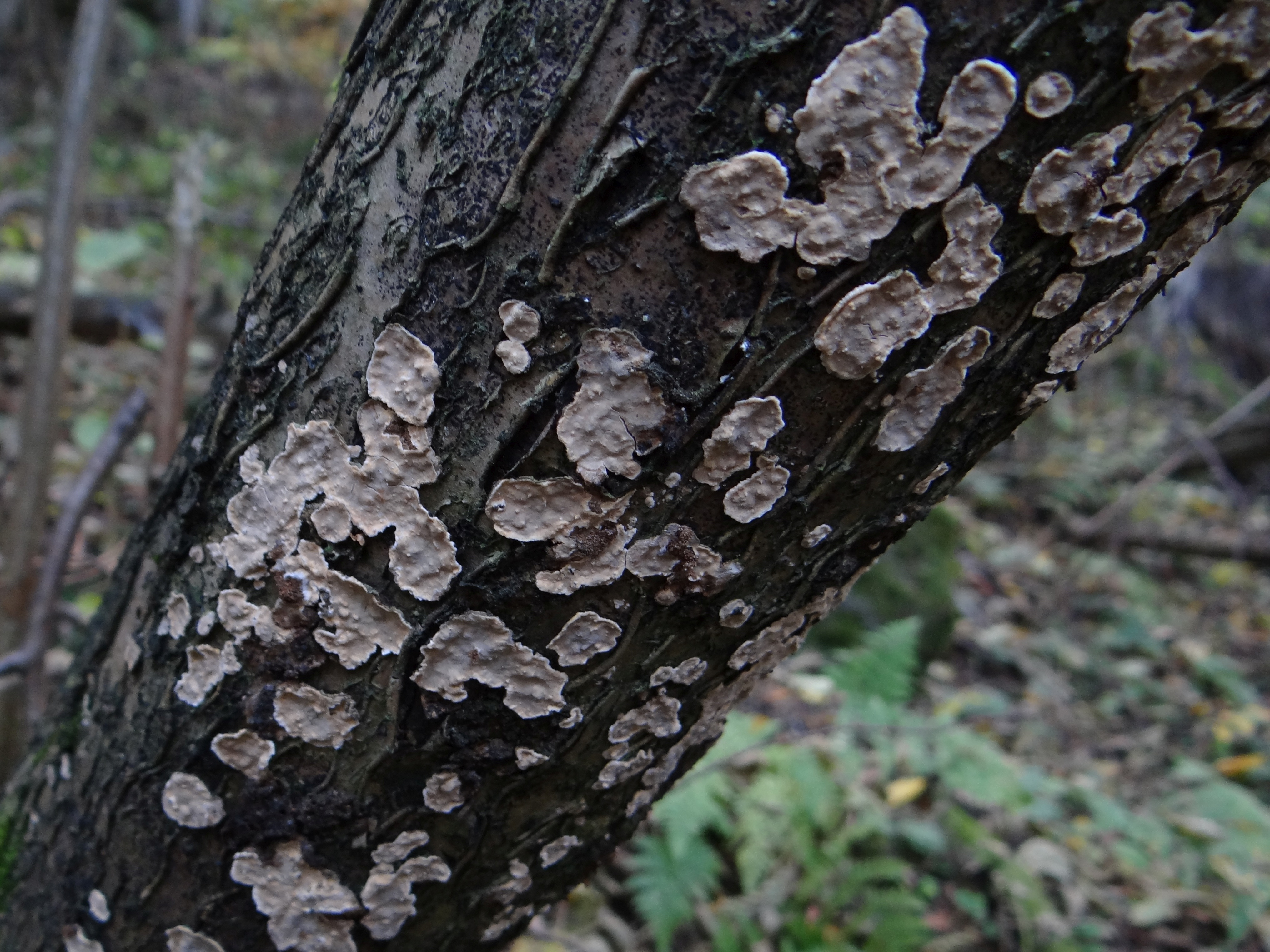 Stereum rugosum on Corylus avellana (location: Poland, Beskid Mały, Żurawnica)